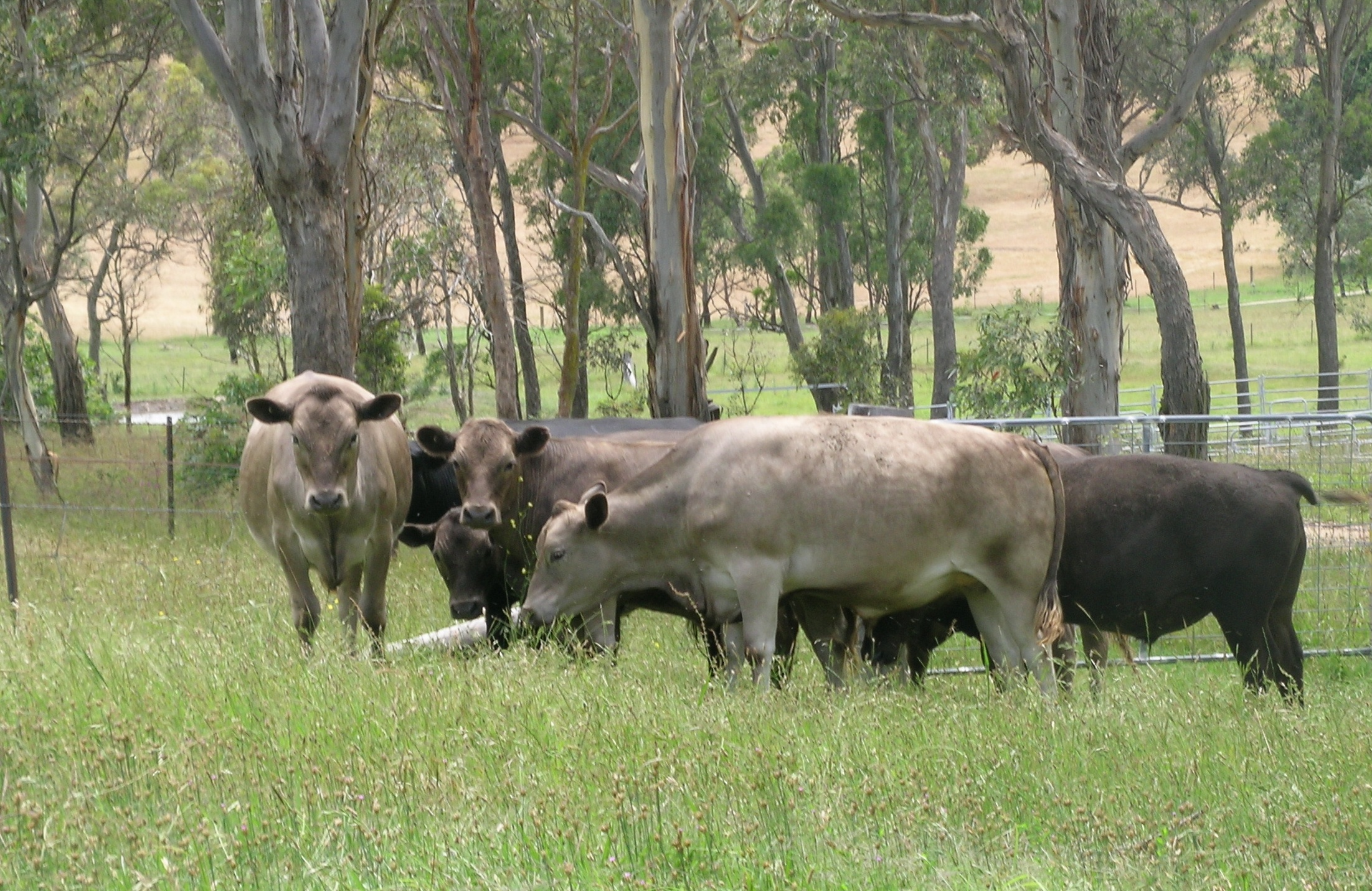 Greyman steers on the left and in the front of the photo, Northern Tablelands, NSW.